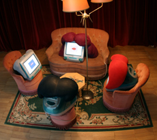 installation view, Burlesques Contemporains, Jeu De Paume, Paris, 2005 G.H. Hovagimyan & Peter Sinclair, Photo: G.H. Hovagimyan